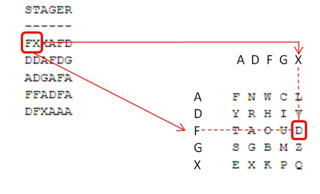 Cipher example